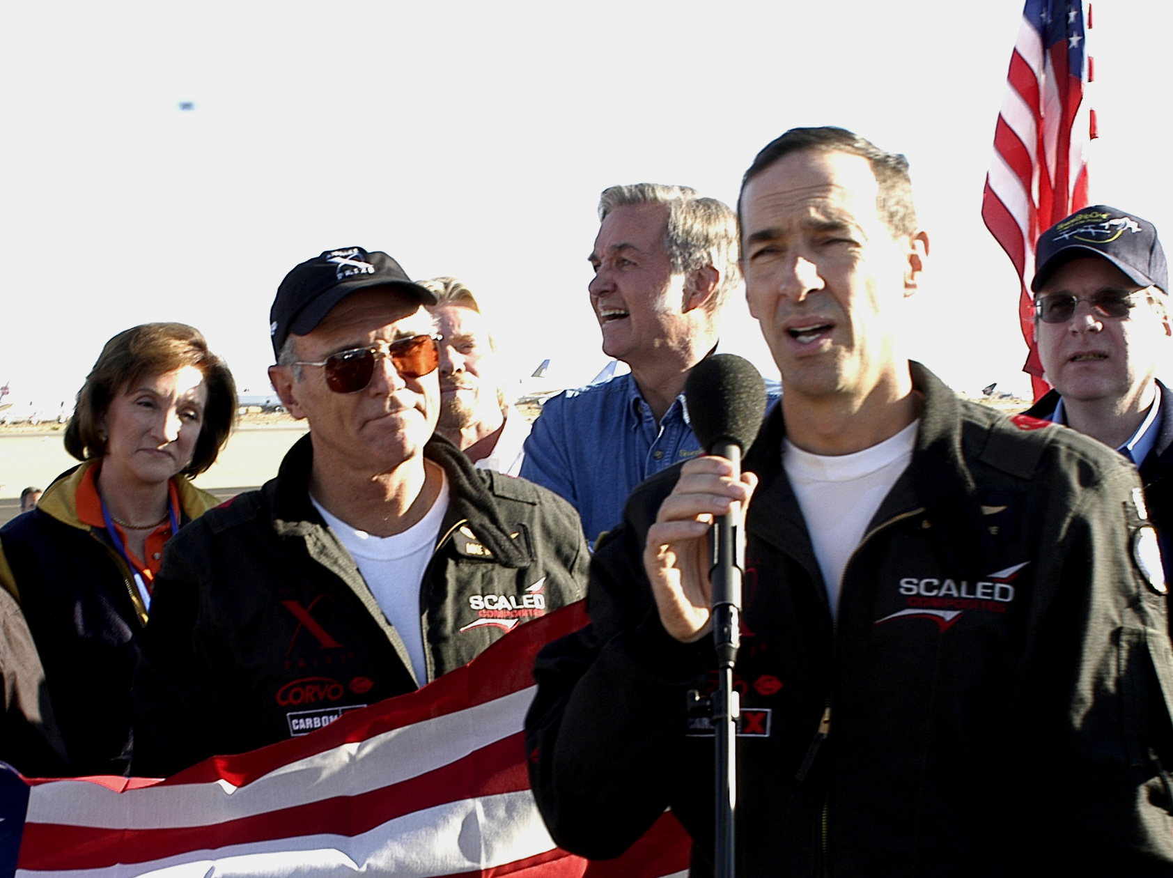 (L to R) Marion Blakely, FAA - Chief. Commercial Astronaut- Michael Winston "Mike" Melvill - Sir Richard Charles Nicholas Branson - Elbert Leander "Burt" Rutan - William Brian Binnie & Paul Gardner Allen reflect on a misson accomplished (October 4, 2004)